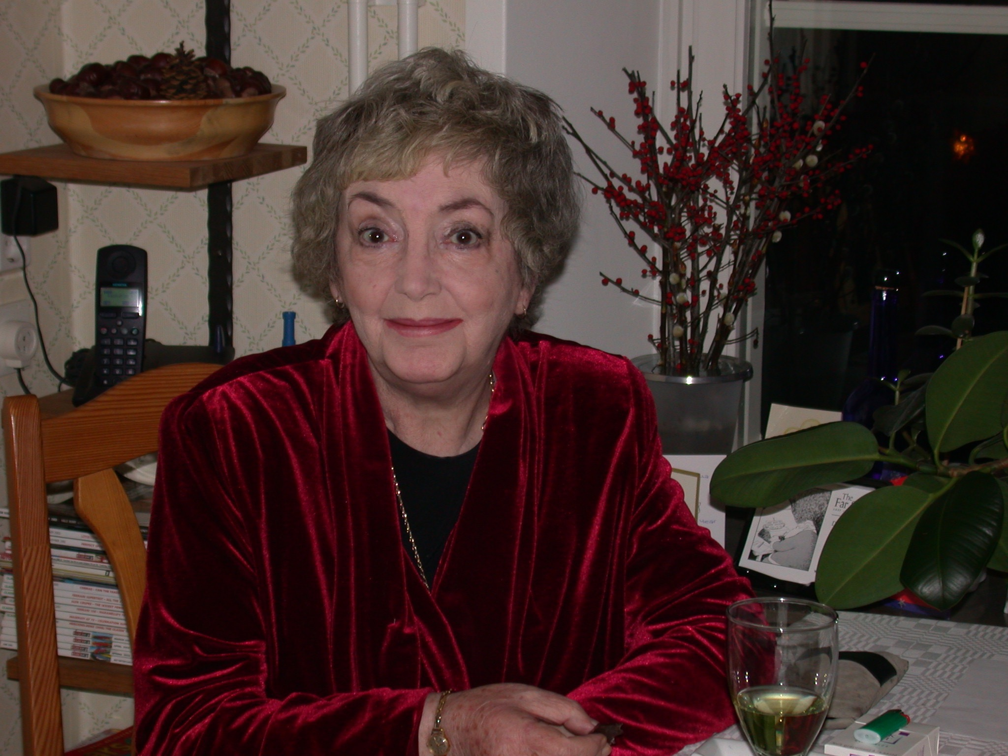 Petra Davies photographed on Christmas Day 2000